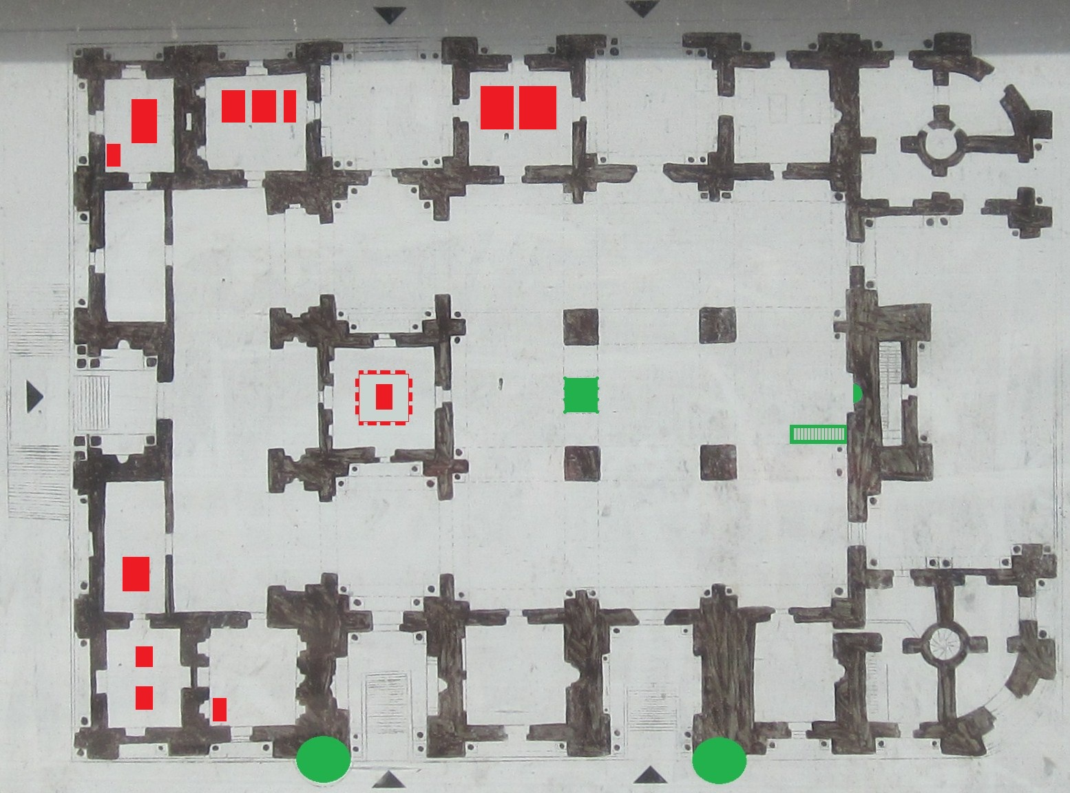 Floor plan of the Rifa'i Mosque in Cairo, Egypt. The location of the tombs is indicated in red, and that of important religious architectural elements in green. Move the mouse over the plan for more details.